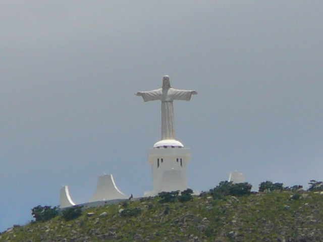 Statue of Christ the King, Lubango, Namibe